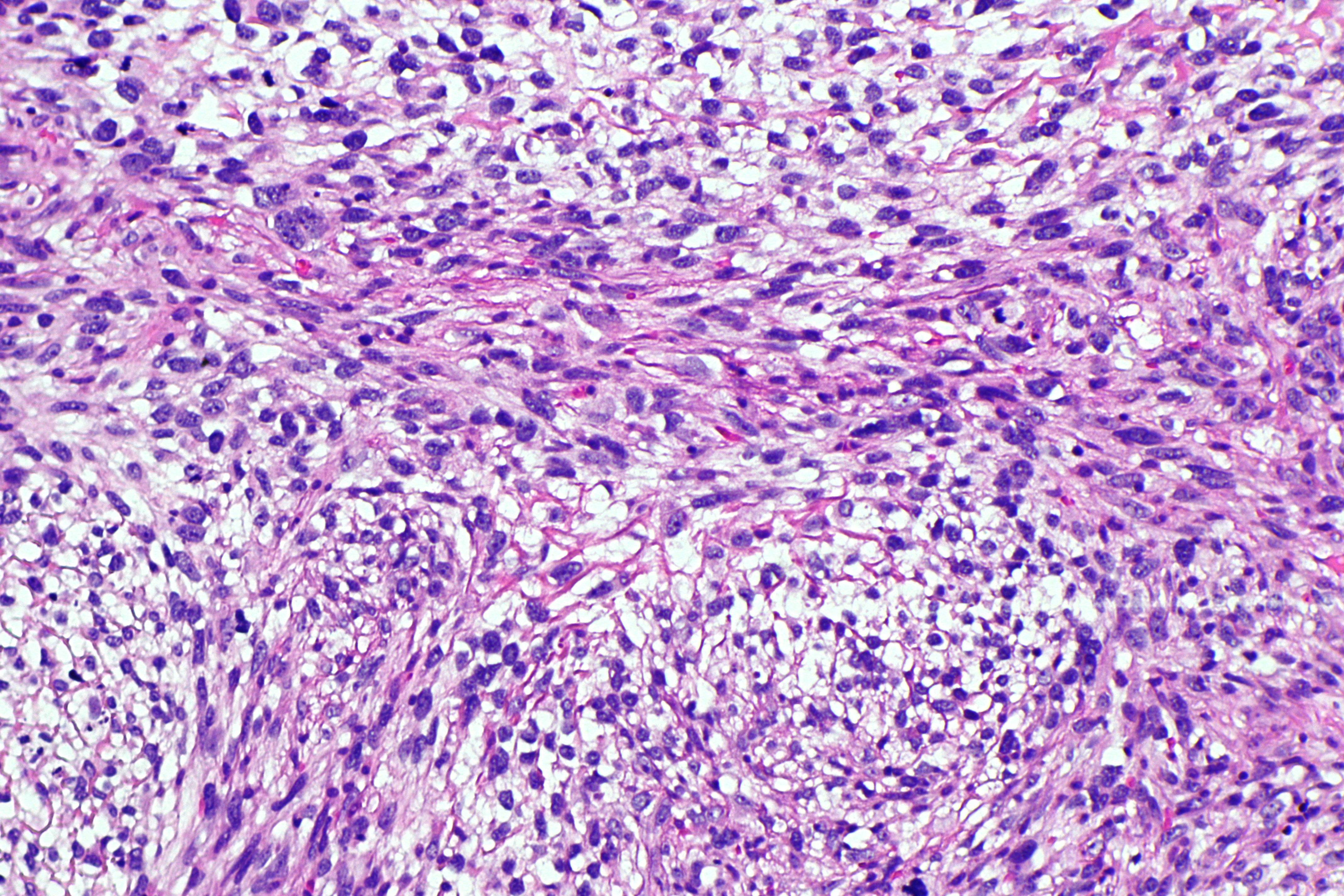 Micrograph of high grade urothelial carcinoma with sarcomatoid differentiation. H&E stain. Related images Sarcomatoid UCC - low mag. Sarcomatoid UCC - intermed. mag. Sarcomatoid UCC - high mag. Sarcomatoid UCC - very high mag.